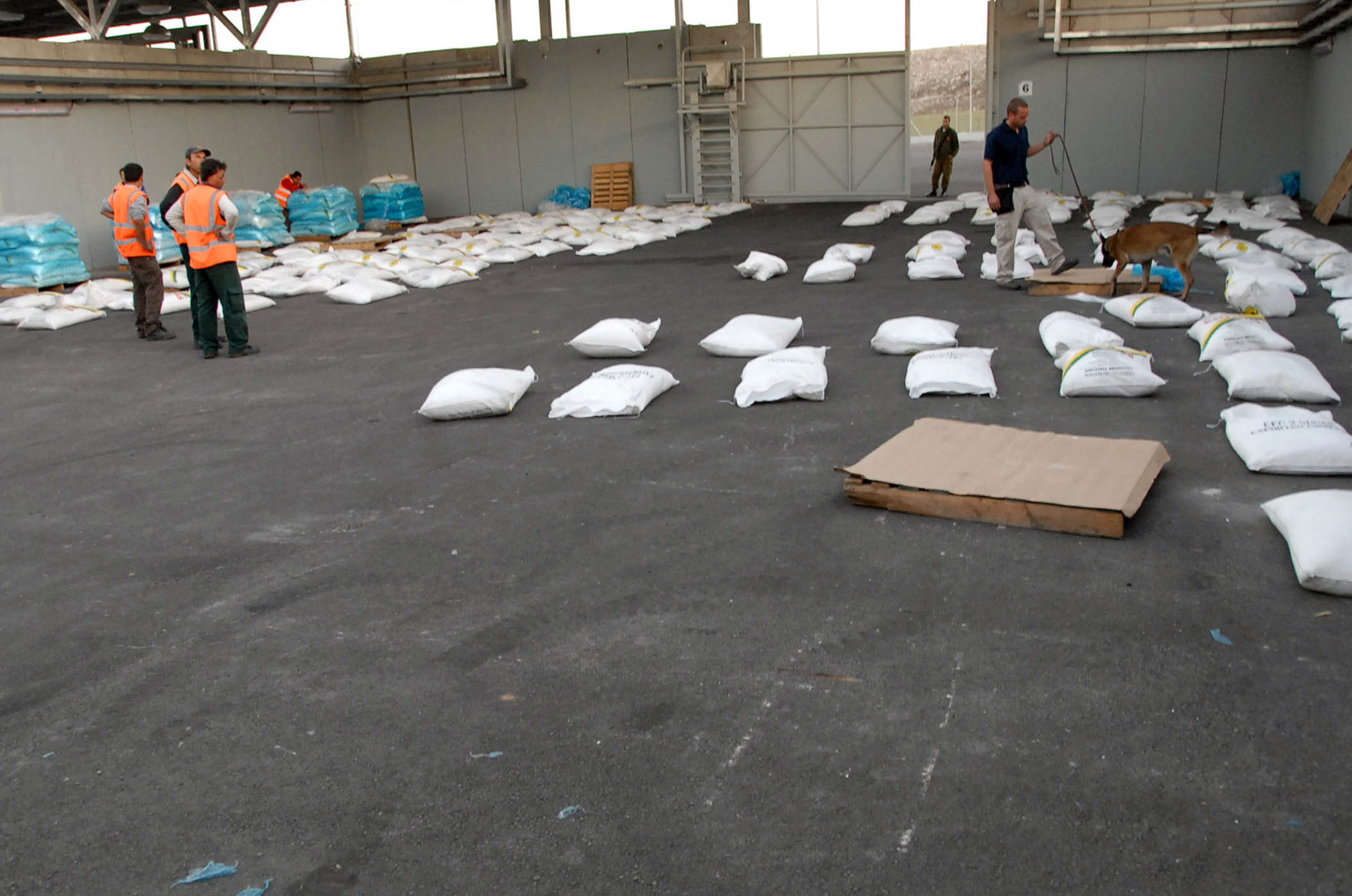 12/11/2007 Security forces discovered 6 tons of Potassium Nitrate disguised in bags of sugar marked as exported from the European Union. The Potassium Nitrate was intended for use in a terror attack. The Potassium Nitrate was found in a truck at one of the Judea and Samaria crossings.